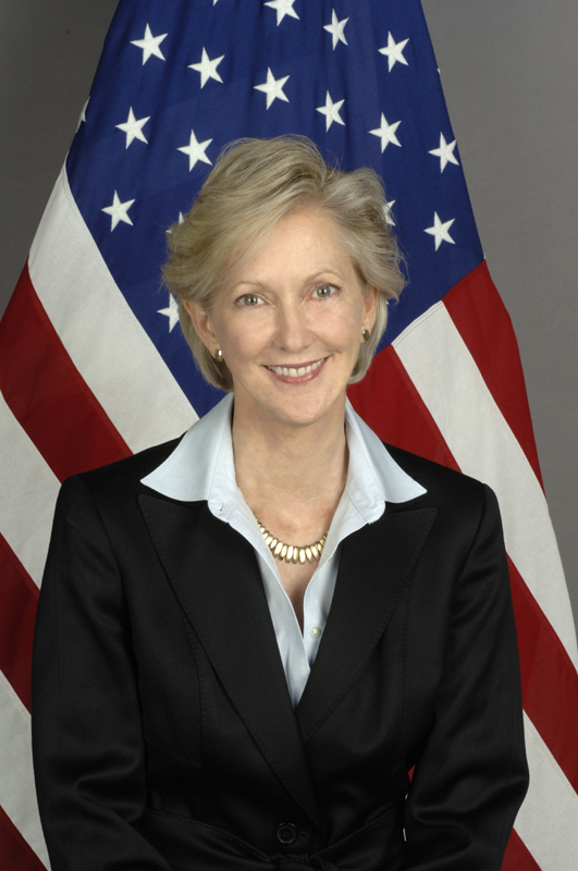 Nancy E. McEldowney, As of 2008, United States Ambassador to Bulgaria.